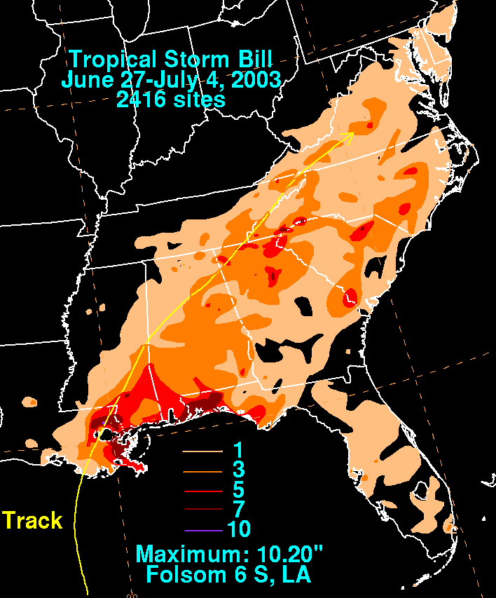 Storm total rainfall map of Tropical Storm Bill during June and July 2003.